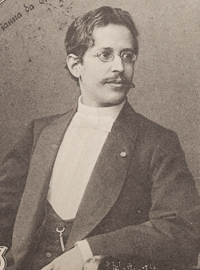 Postcard bearing the effigy of José Viana da Mota, Portuguese musician.